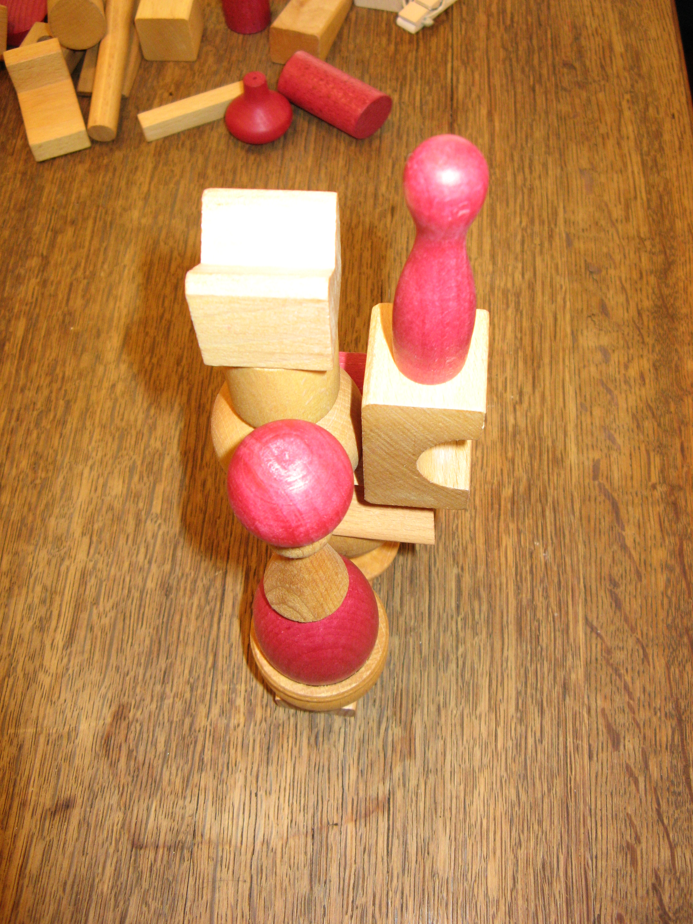 example of Bausack game